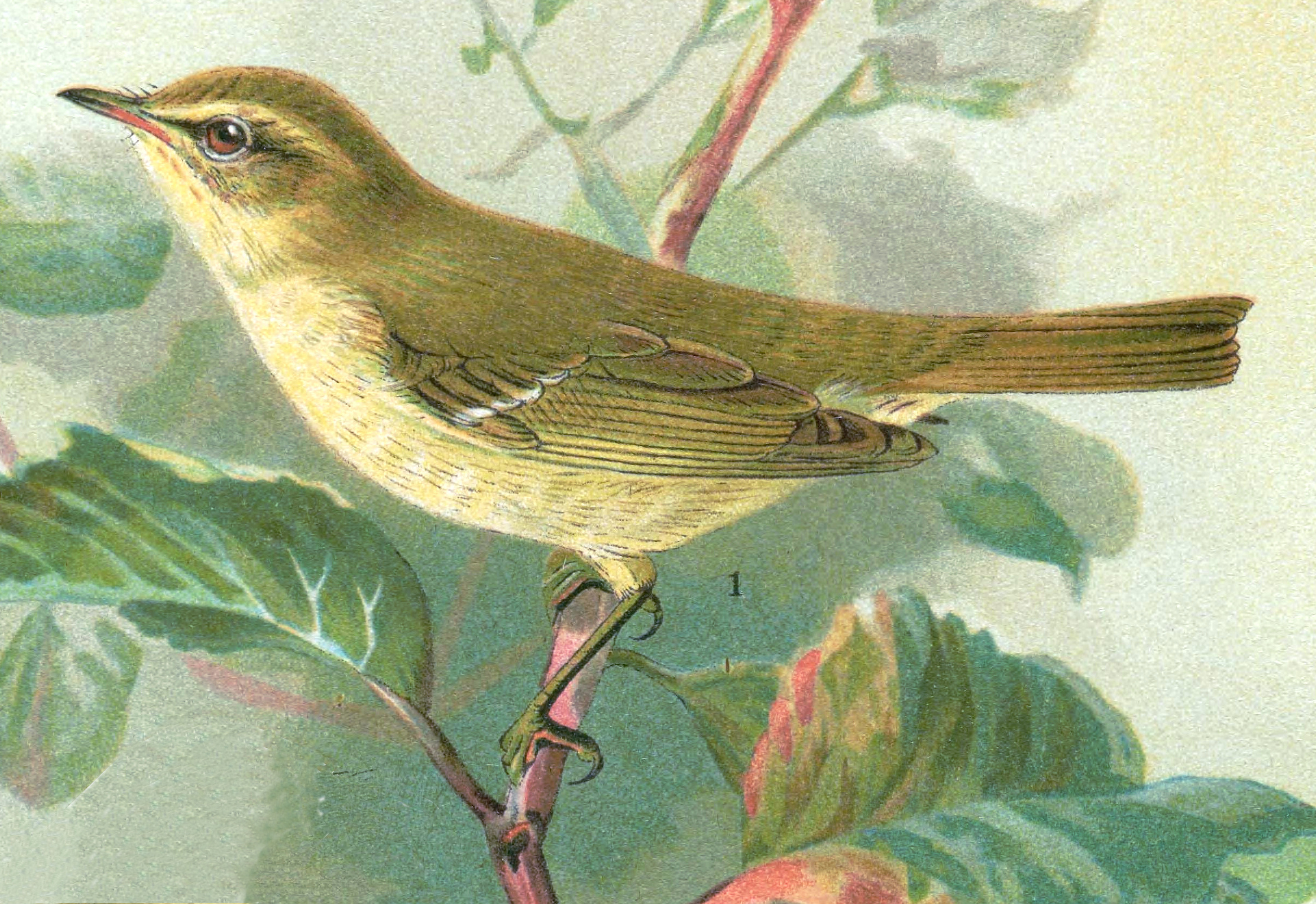 Greenish Warbler Phylloscopus trochiloides. The Green Leaf-Warbler, Phylloscopus nitidus Blyth 1843 in the left lower corner from the original plate is artificially removed.